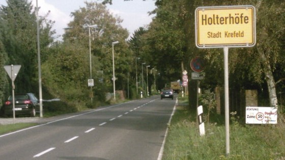 Holterhöfe, Krefeld, Germany